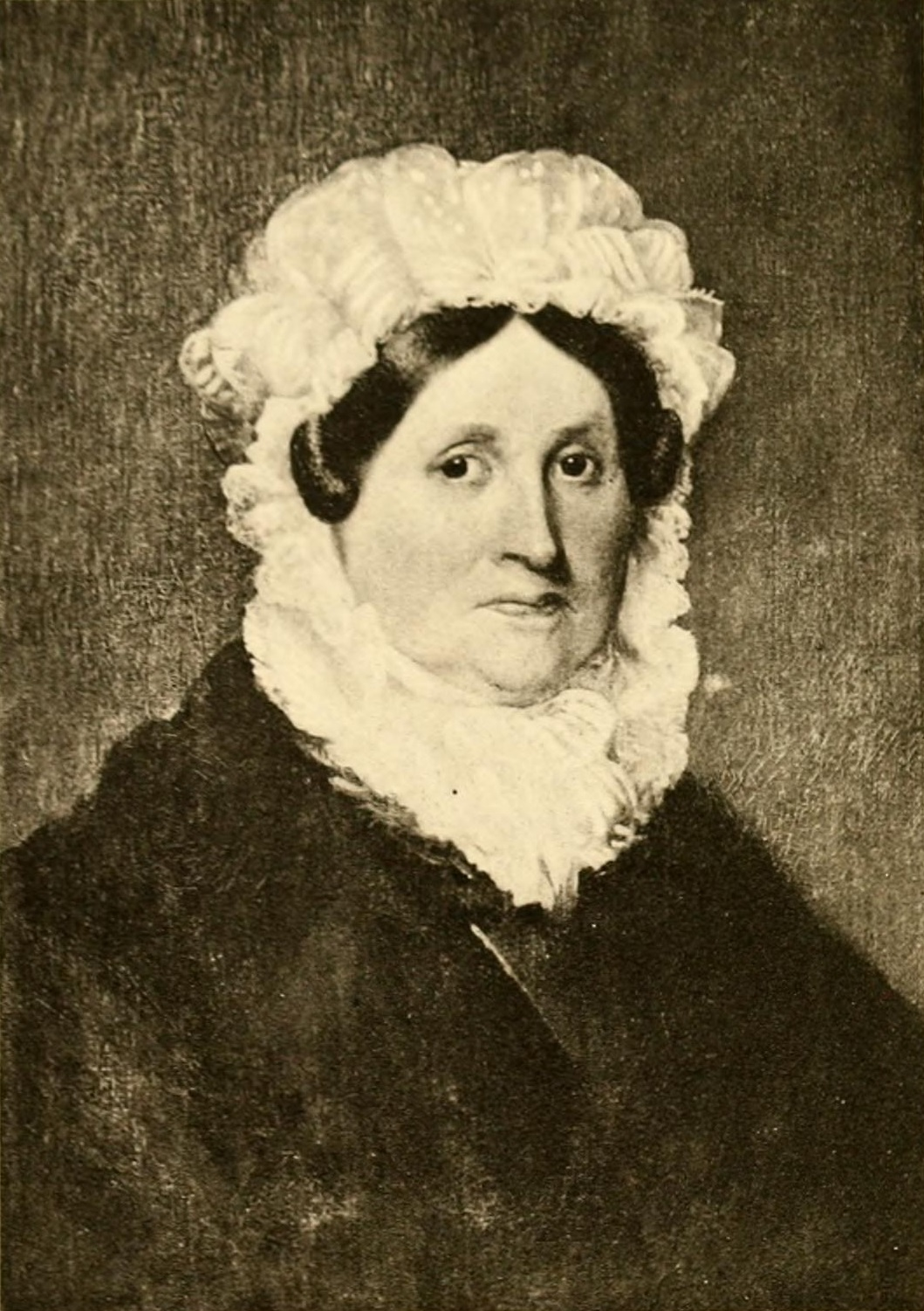 Sarah Knowlton Holbrook (Mother of Vermont Governor Frederick Holbrook)